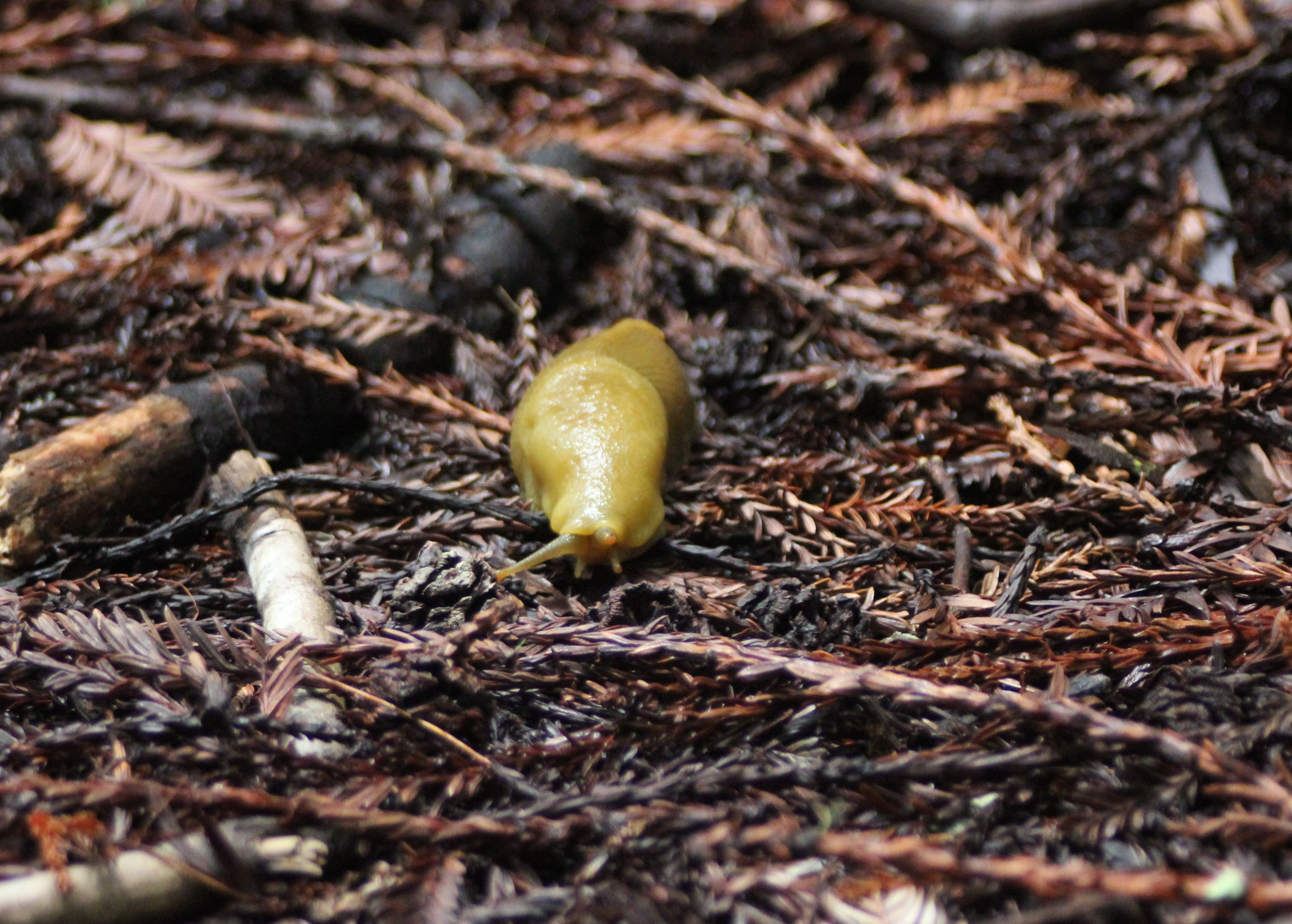 Banana Slug in Muir Woods, Northern California